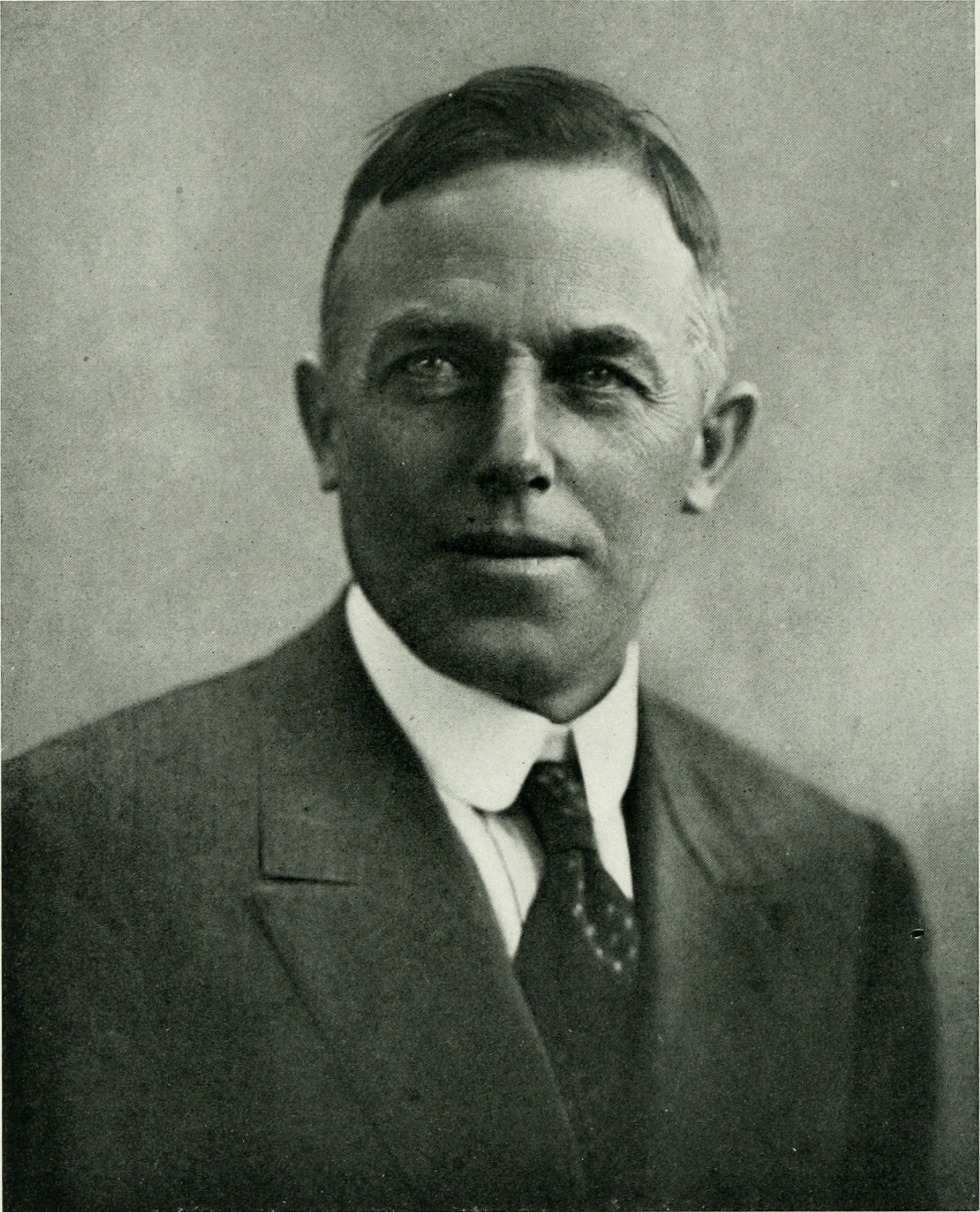 Title: The American Museum journal Year: c1900-(1918) (c190s) Authors: American Museum of Natural History Subjects: Natural history Publisher: New York : American Museum of Natural History Text Appearing Before Image: ' Text Appearing After Image: MR. ROLLO H. BECK M'ide experience and much practical knowledge, coupled with a boundless enthusiasm for the work, have made Mr. Beck one of the most successful bird collectors in a region where such collecting is accomplished only with the greatest difficulty and even danger. Through his efforts on the Brewster-Sanford Expedition to South America, there is now deposited in the American Museum the most complete representation of Tubinares in the world